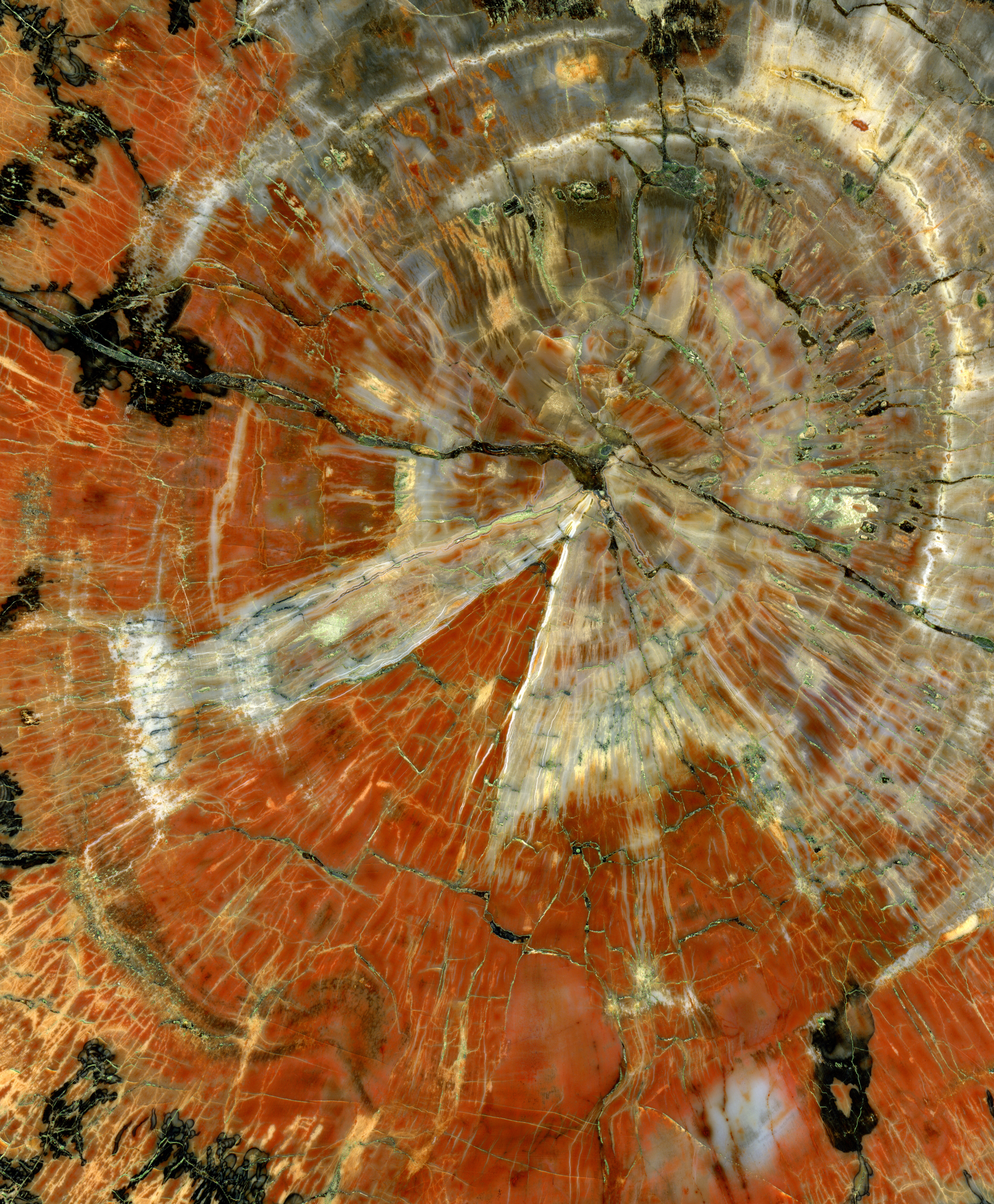 The image shows the middle of a polished slice of a petrified tree from Arizona. After the enlargement of the image it is possible to see the insect borings in the wood. They lived approximately 230 million years ago in the late Triassic. Size: 15.34cm × 18.04cm